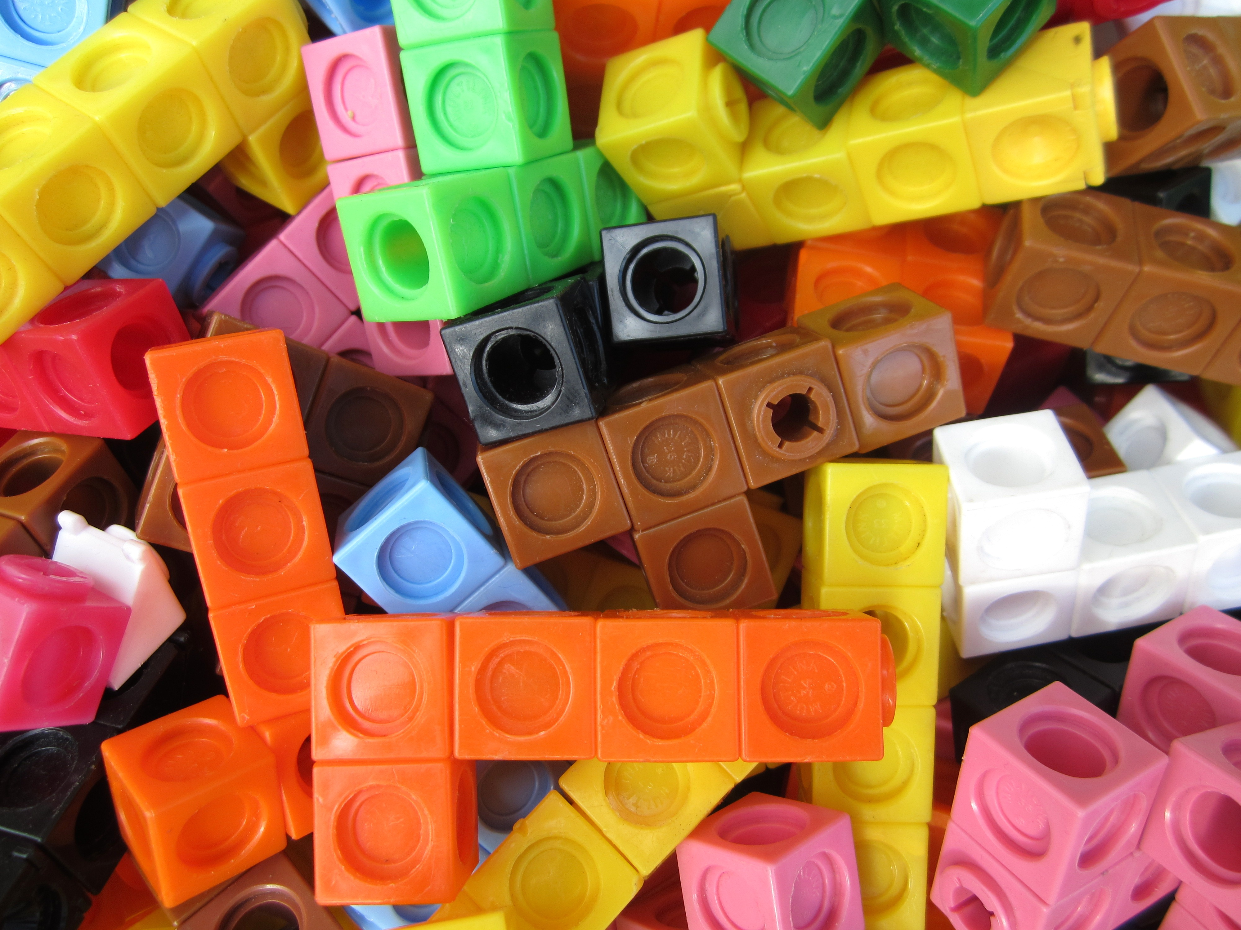 Linking plastic cubes - "Multilink" cubes - used in teaching maths